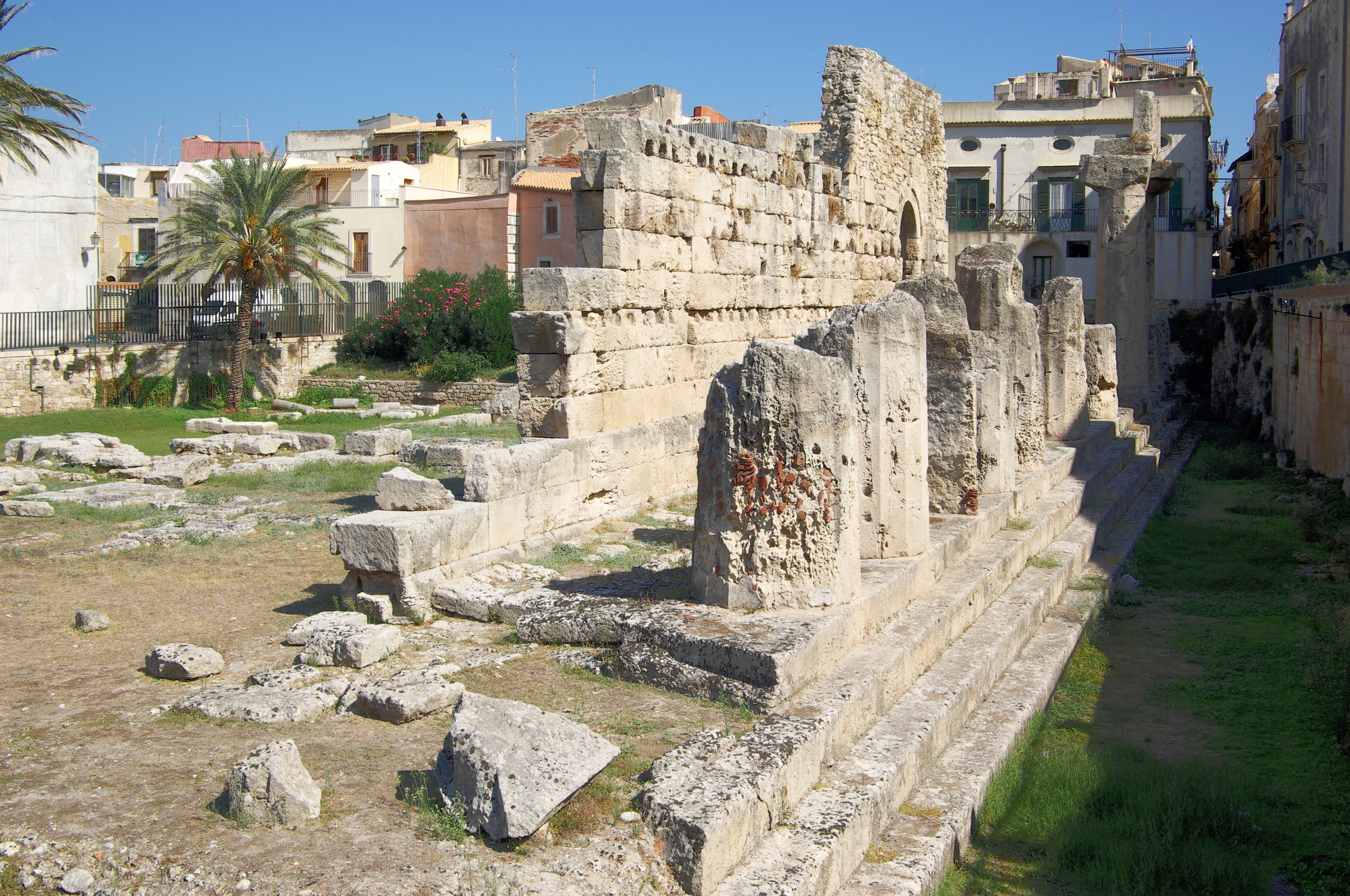 Italy, Sicily, Syracuse, Temple of Apollo